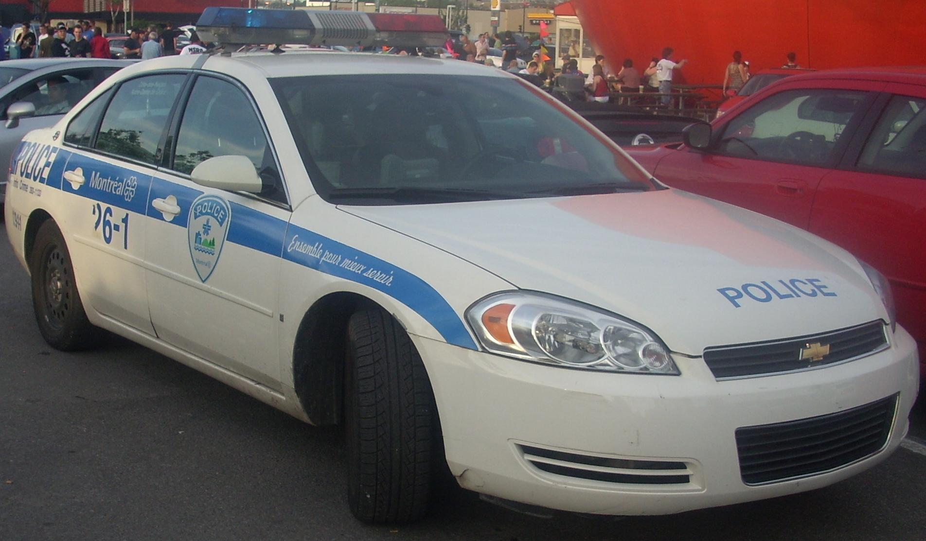 2006–2009 Chevrolet Impala photographed in Montreal, Quebec, Canada at Gibeau Orange Julep.